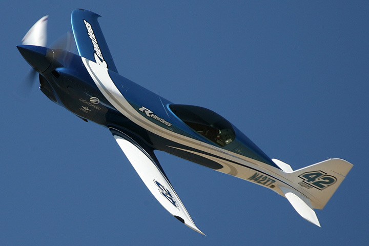 NXT Sports Class Racer "Relentless" at the Reno Air Races